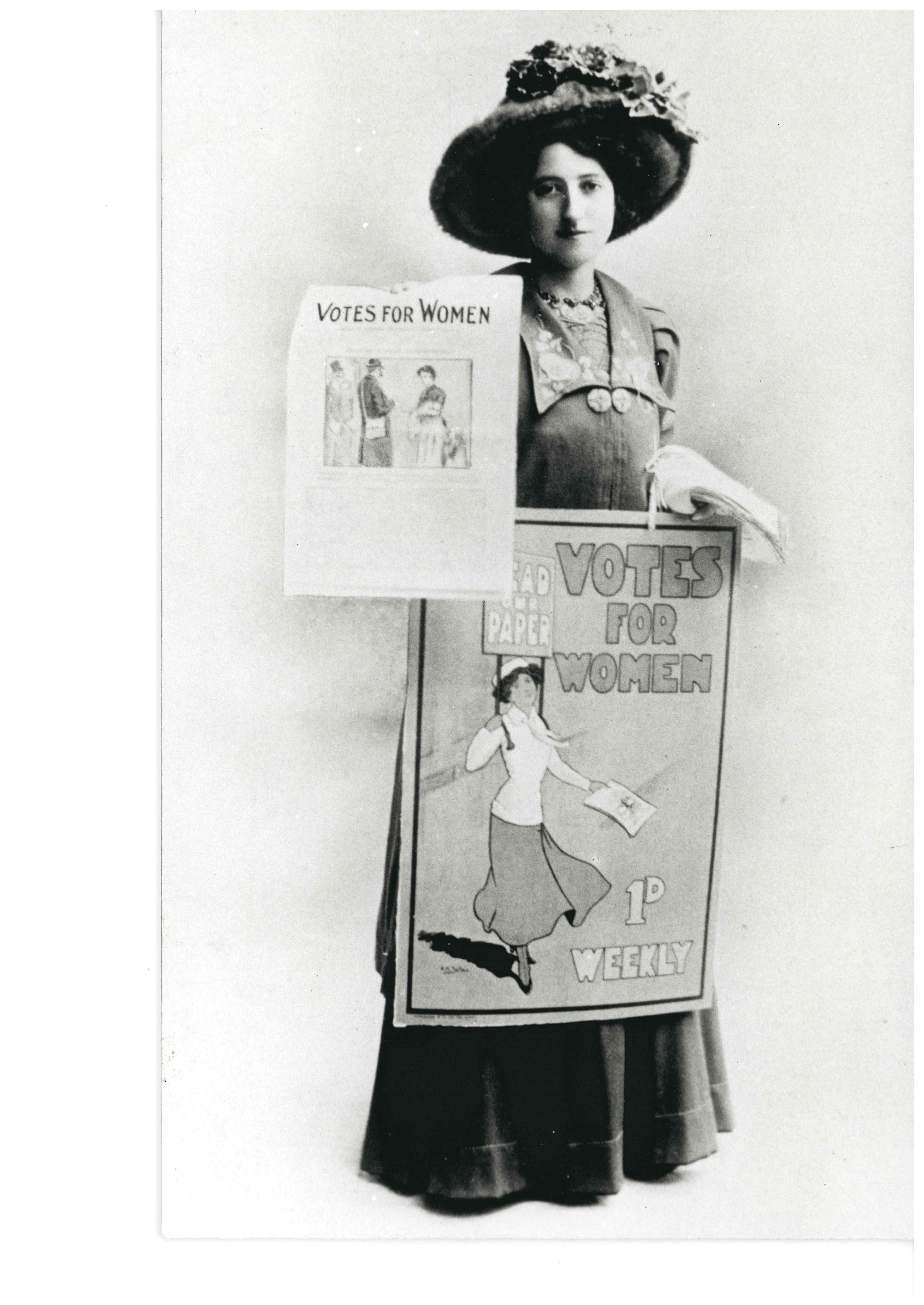 A picture of Grace Chappelow selling the Votes for Women newspaper.